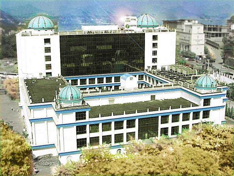 CETTM - Training Centre, Technology Street, Hiranandani Gardens, Mumbai